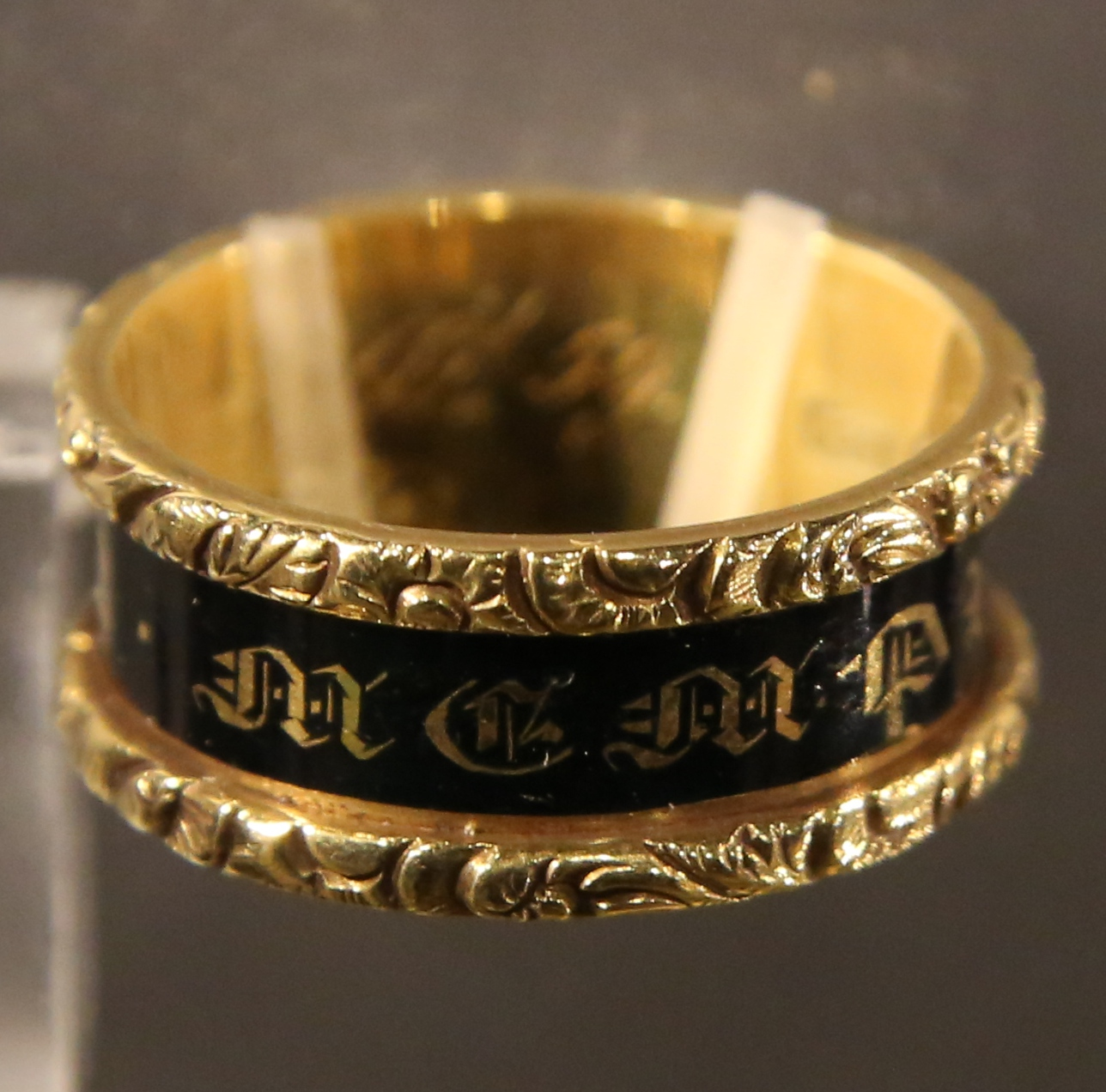 Photo of a Mourning ring on display at the thinktank in Birmingham. Made in Birmingham 1825